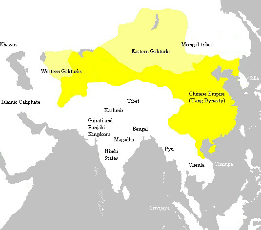 Tang-China 669AD Modification of Image:Tang dynasty.PNG